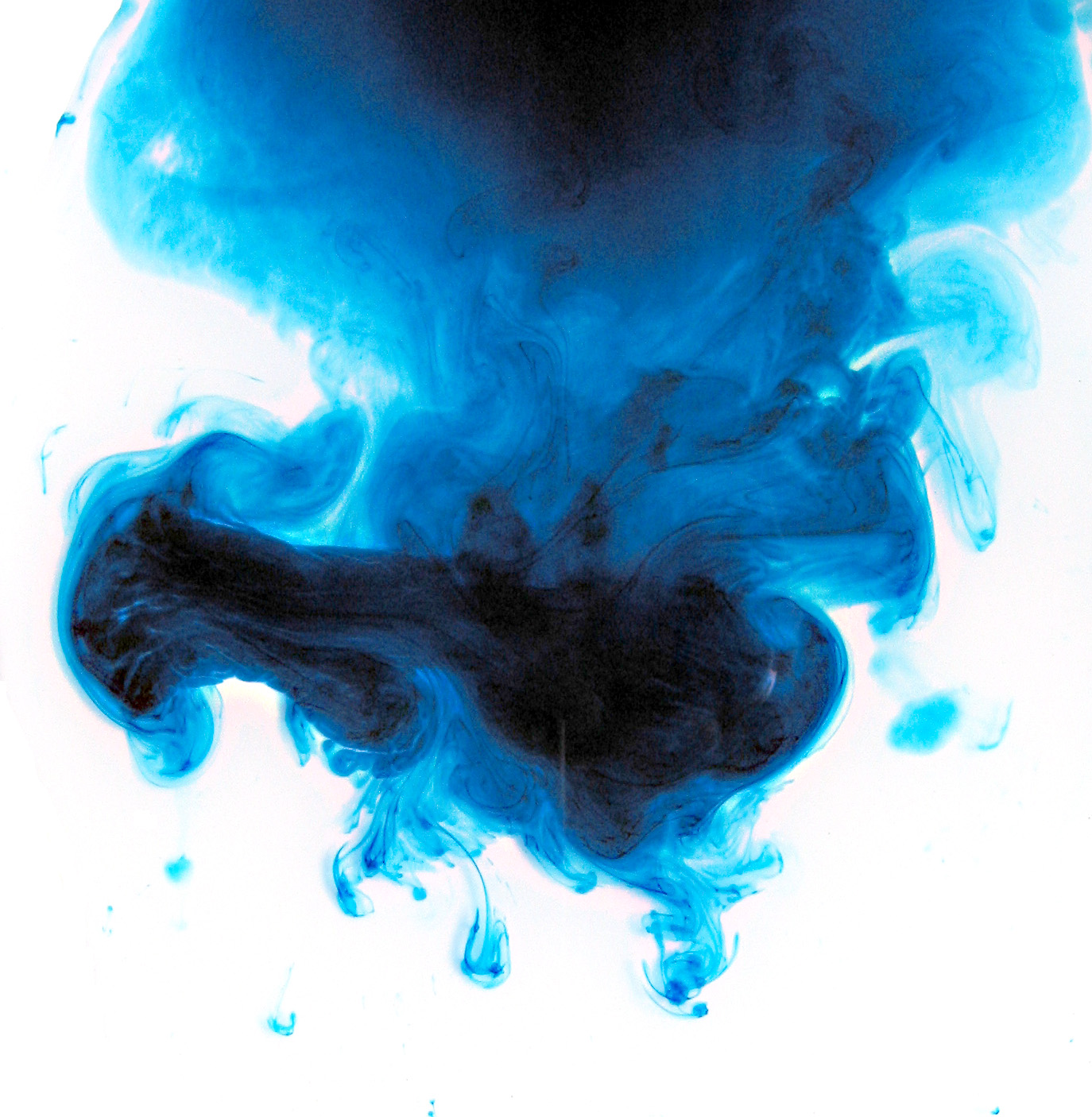 Ink on a wet background